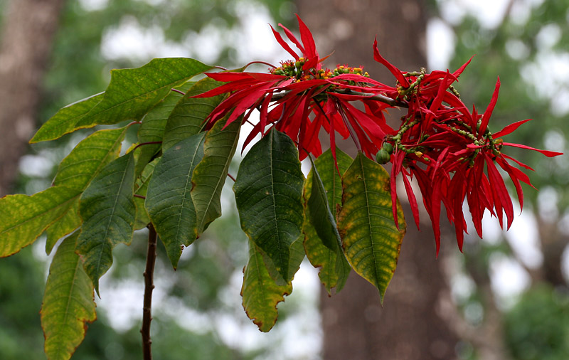 Poinsettia or Christmas flower Euphorbia pulcherrima at Jayanti in Buxa Tiger Reserve in Jalpaiguri district of West Bengal, India.